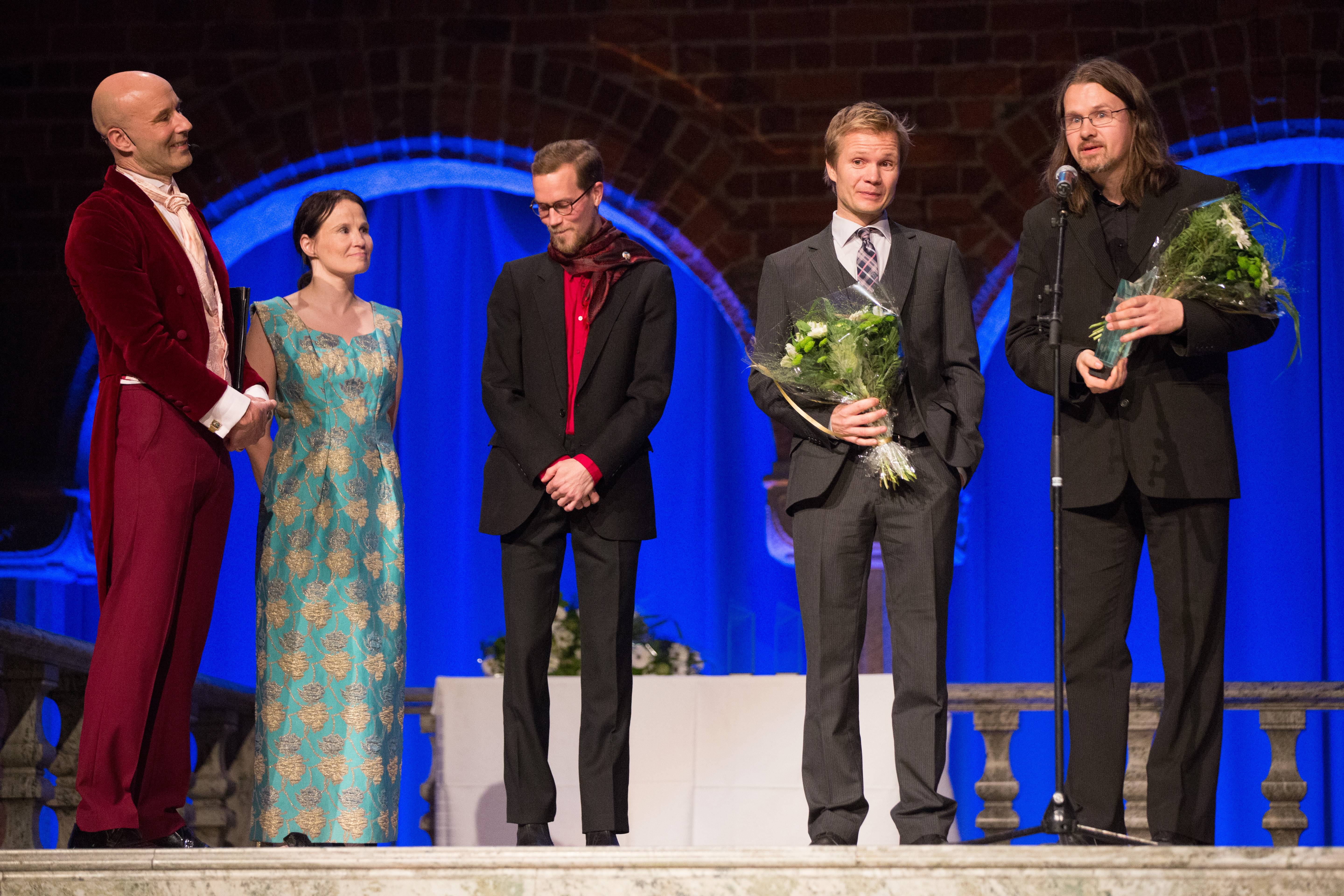 Mark Levengood, Seita Vuorela, Jani Ikonen, Øyvind Torseter, and Håkon Øvreås 2014-10-29 Photo:Magnus Fröderberg/norden.org